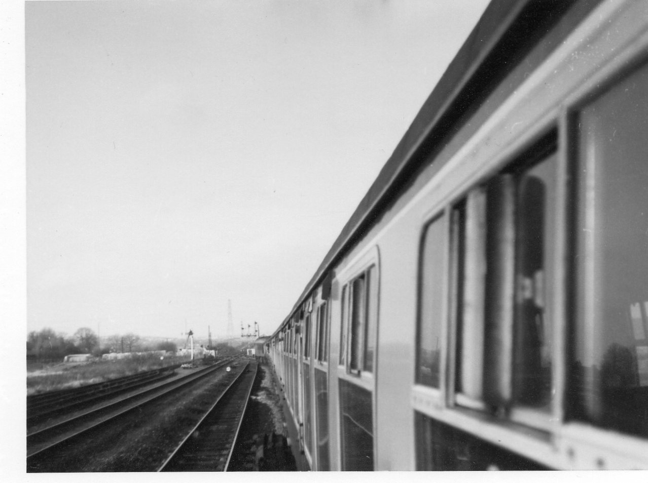 Beighton Junction 1891 (ie the 1891 junction where the MSLR "Derbyshire Lines" left the MSLR Beighton Branch, immediately south of Rotherham Road, Beighton) heading north on 27 November 1977 when trains between Chesterfield and Sheffield were diverted because of engineering work. The photographer and locomotive are in approximately the reverse positions of image "BeightonJunction1891 19771127 Southbound".